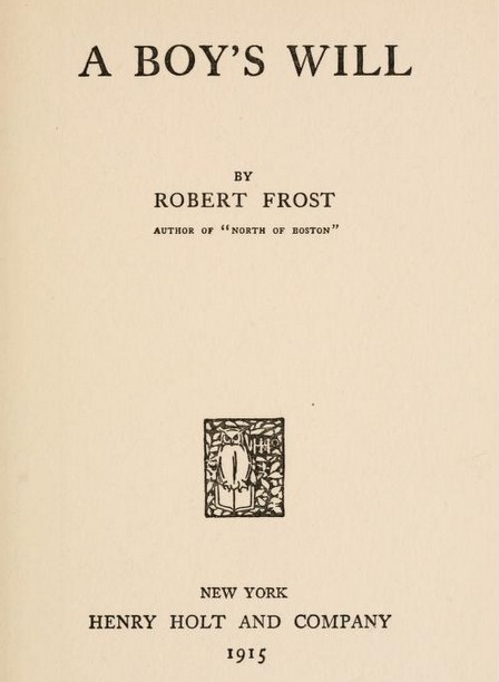 Title page to A Boy's Will by Robert Frost. Published in New York by Henry Holt & Company, 1915. This is a second edition; the first edition was published in 1913. Via , scanned from original at the University of New Hampshire Library.